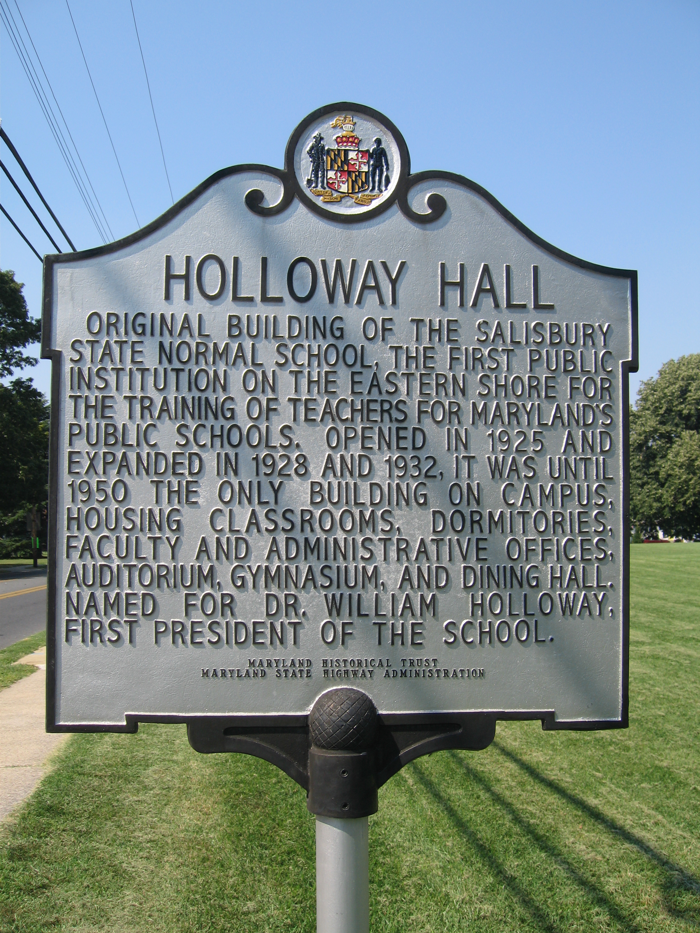 Historical marker designating the site of Holloway Hall at Salisbury University located at 1101 Camden Avenue, Salisbury, Maryland.